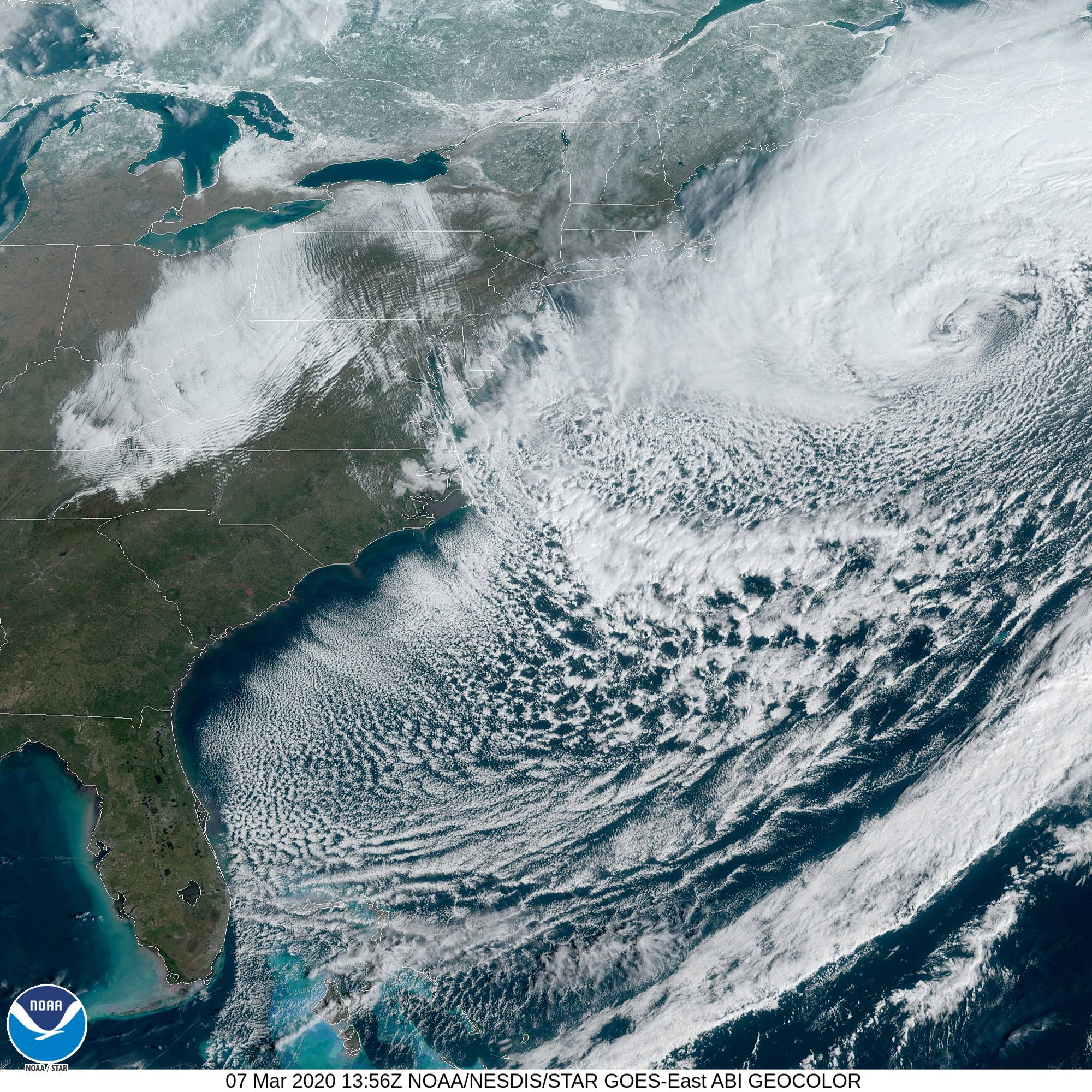 GOES-16 GEOCOLOR satellite imagery taken on March 7, 2020 viewing a powerful bomb cyclone/nor'easter move away from New England